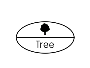 This figure shows arbitrariness of the sign.